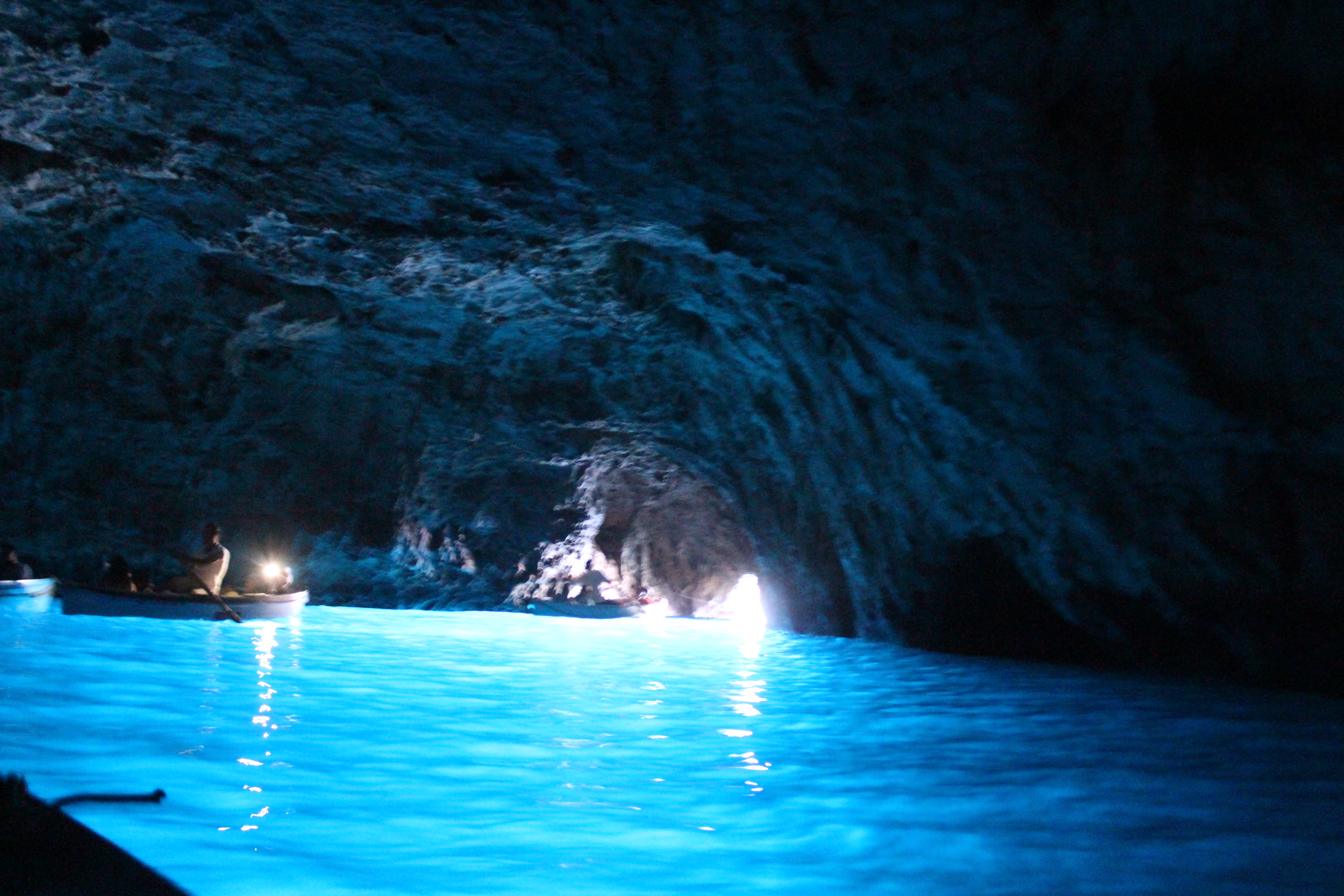 The Blue Grotto (Italian: Grotta Azzurra) is a sea cave on the coast of the island of Capri, southern Italy. Sunlight, passing through an underwater cavity and shining through the seawater, creates a blue reflection that illuminates the cavern. The cave extends some 50 metres into the cliff at the surface, and is about 150 metres (490 ft) deep.